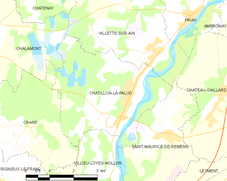 Map of French commune: Châtillon-la-Palud Map commune FR insee code 01092.png